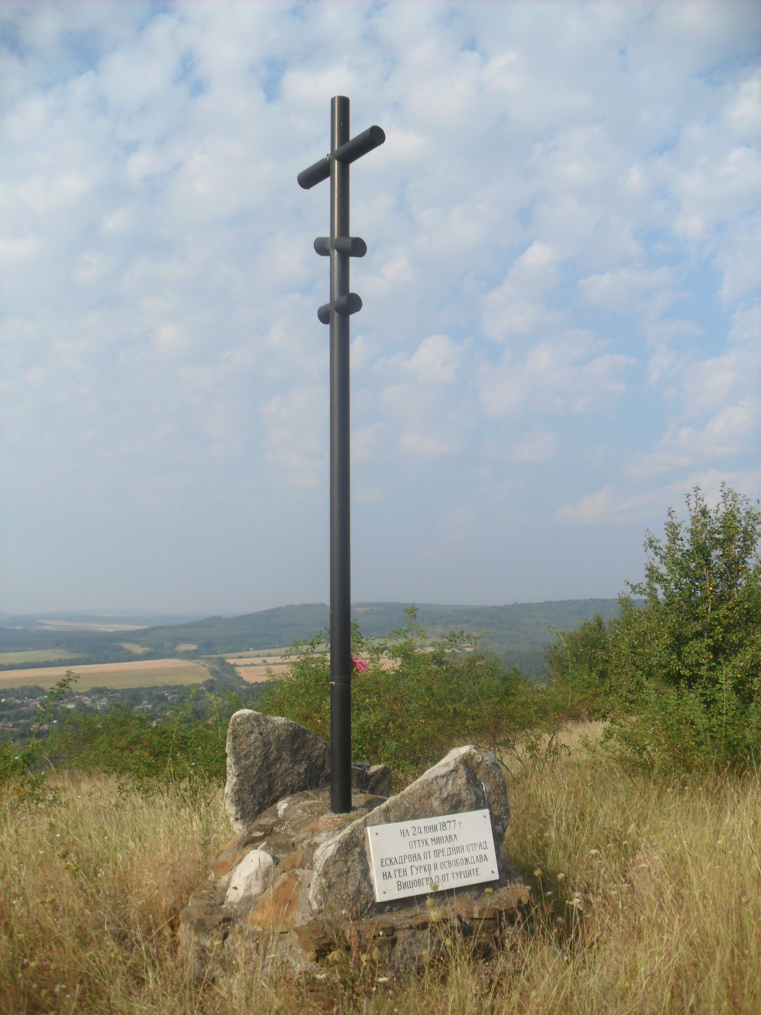 The Monument were builded in 2015